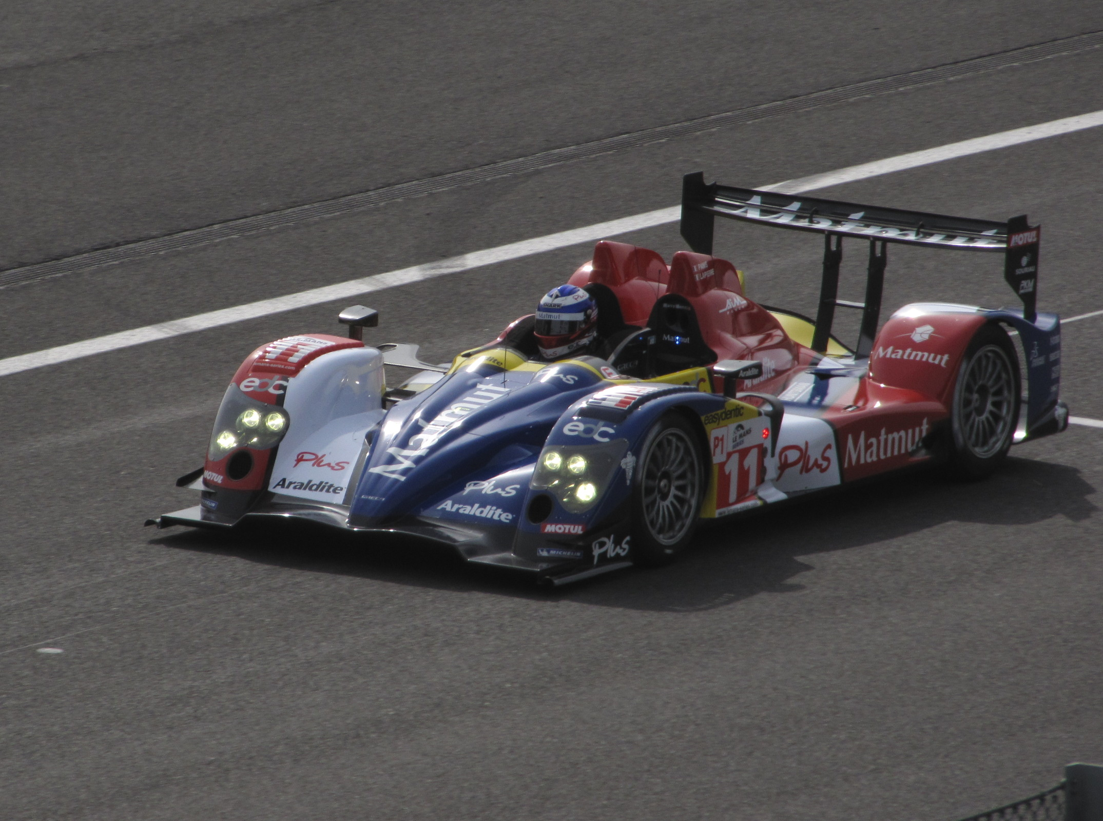 Oliver Panis pilotant une ORECA 01 essais libres des 1 000 kilomètres de Spa 2009.